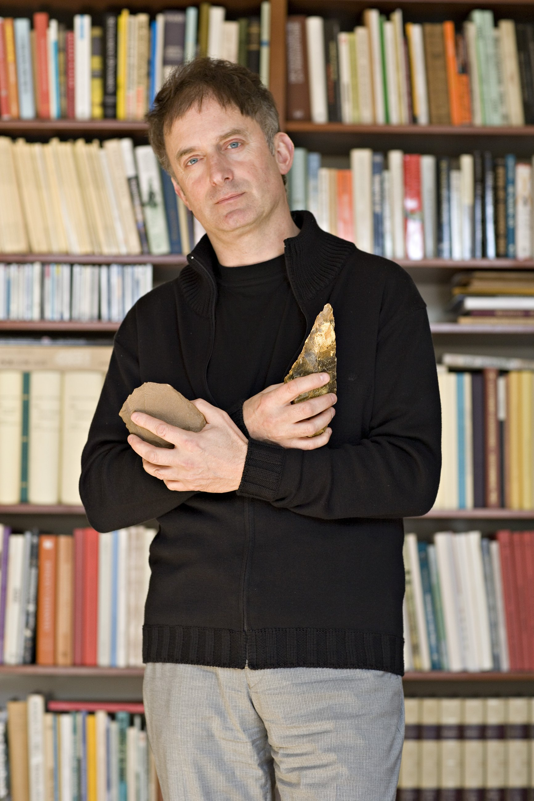 Dutch archeologist Wil Roebroeks 2007